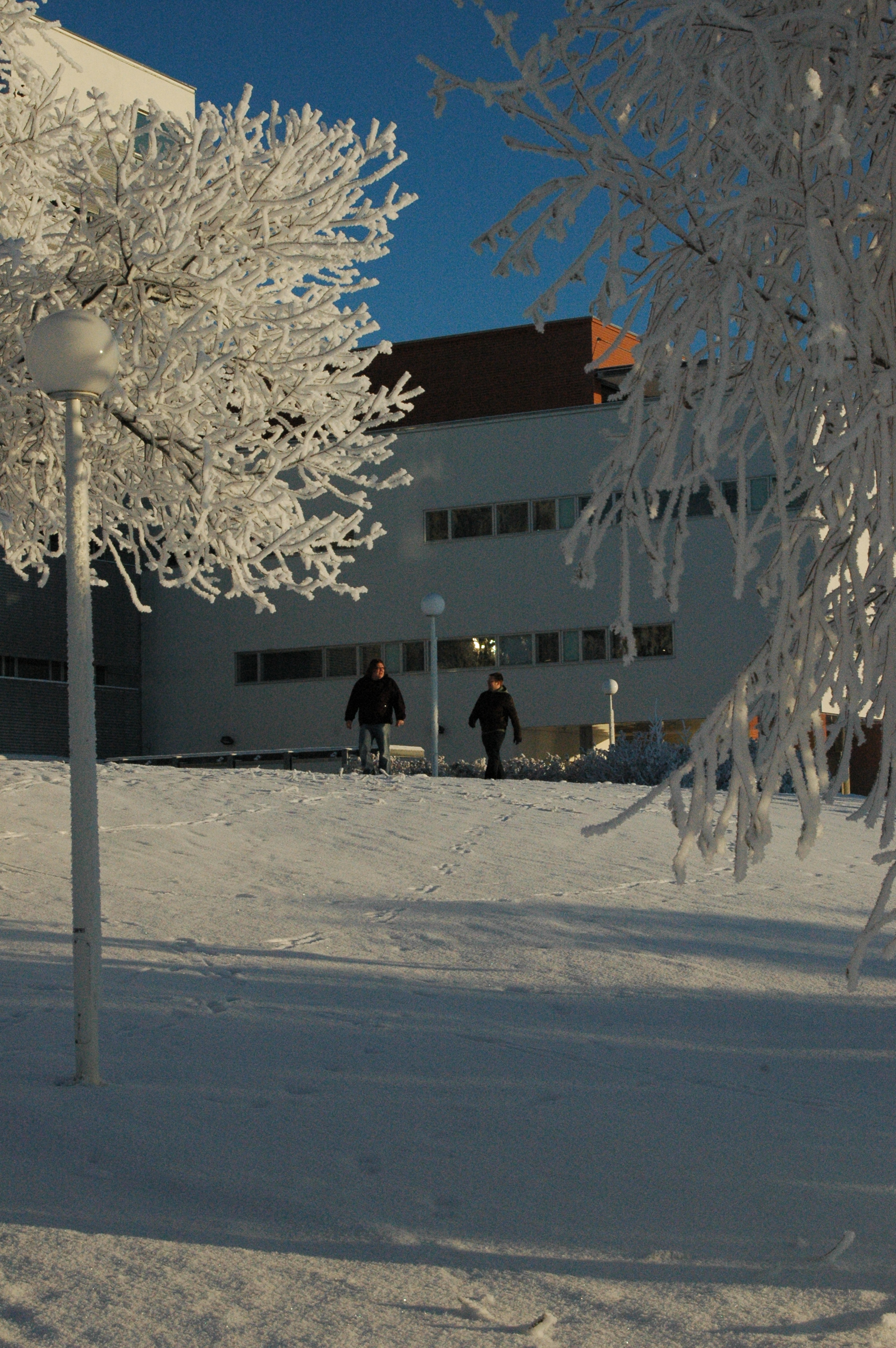 The academic library Tritonia in winter time.